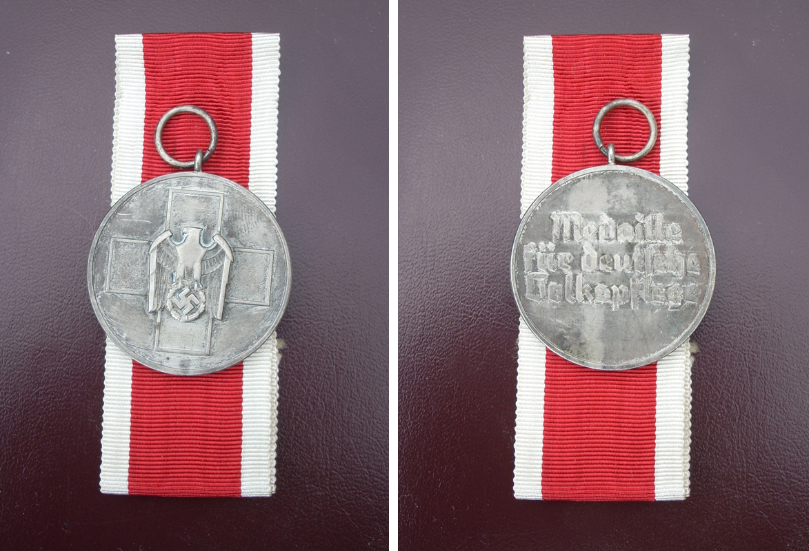 German nazi social welfare medal, 1939-1945, picture from my own collection